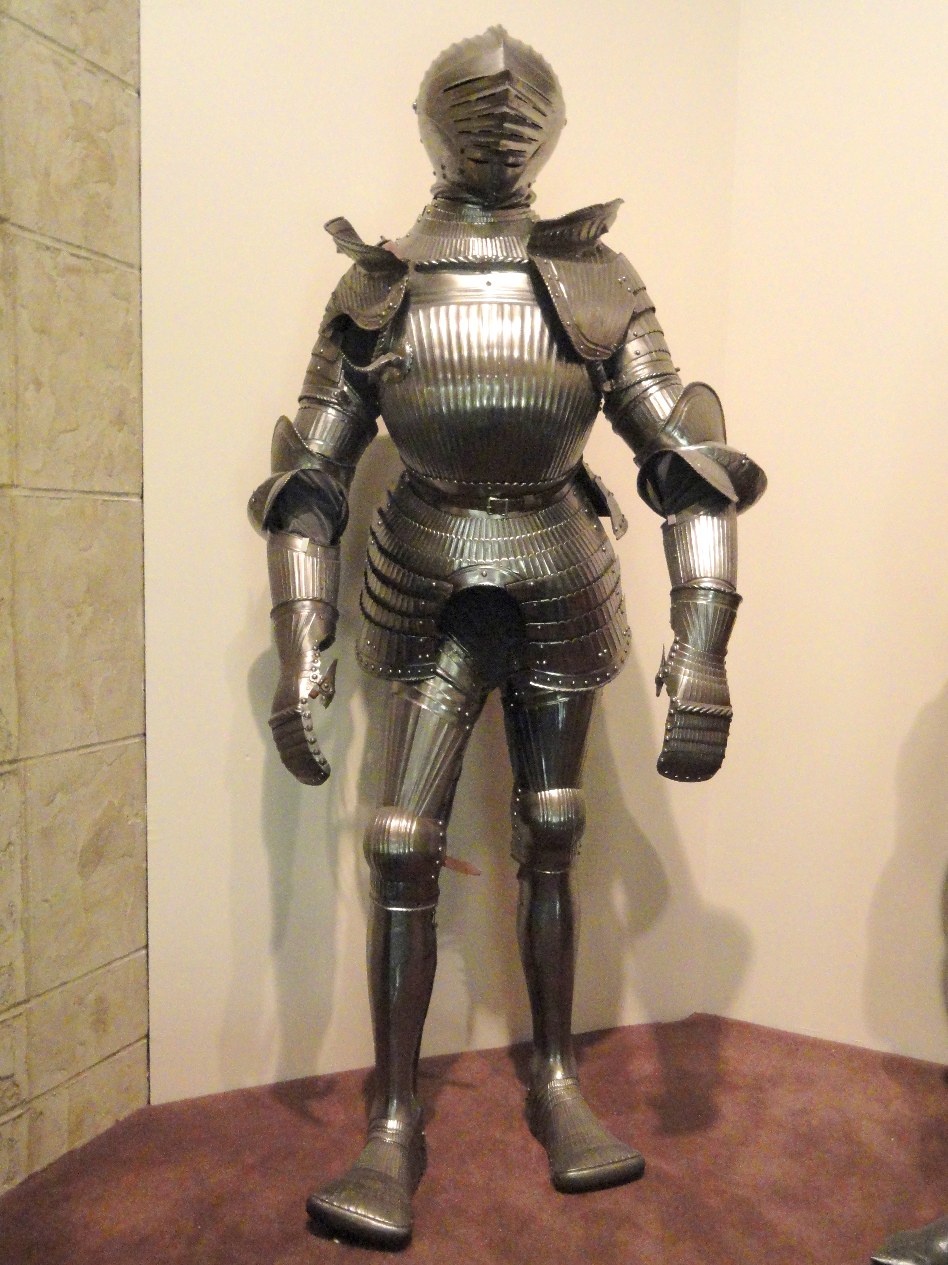 Exhibit in the Higgins Armory Museum, 100 Barber Avenue, Worcester, Massachusetts, USA. The museum permitted photography without any restriction, both in writing and when I asked verbally.